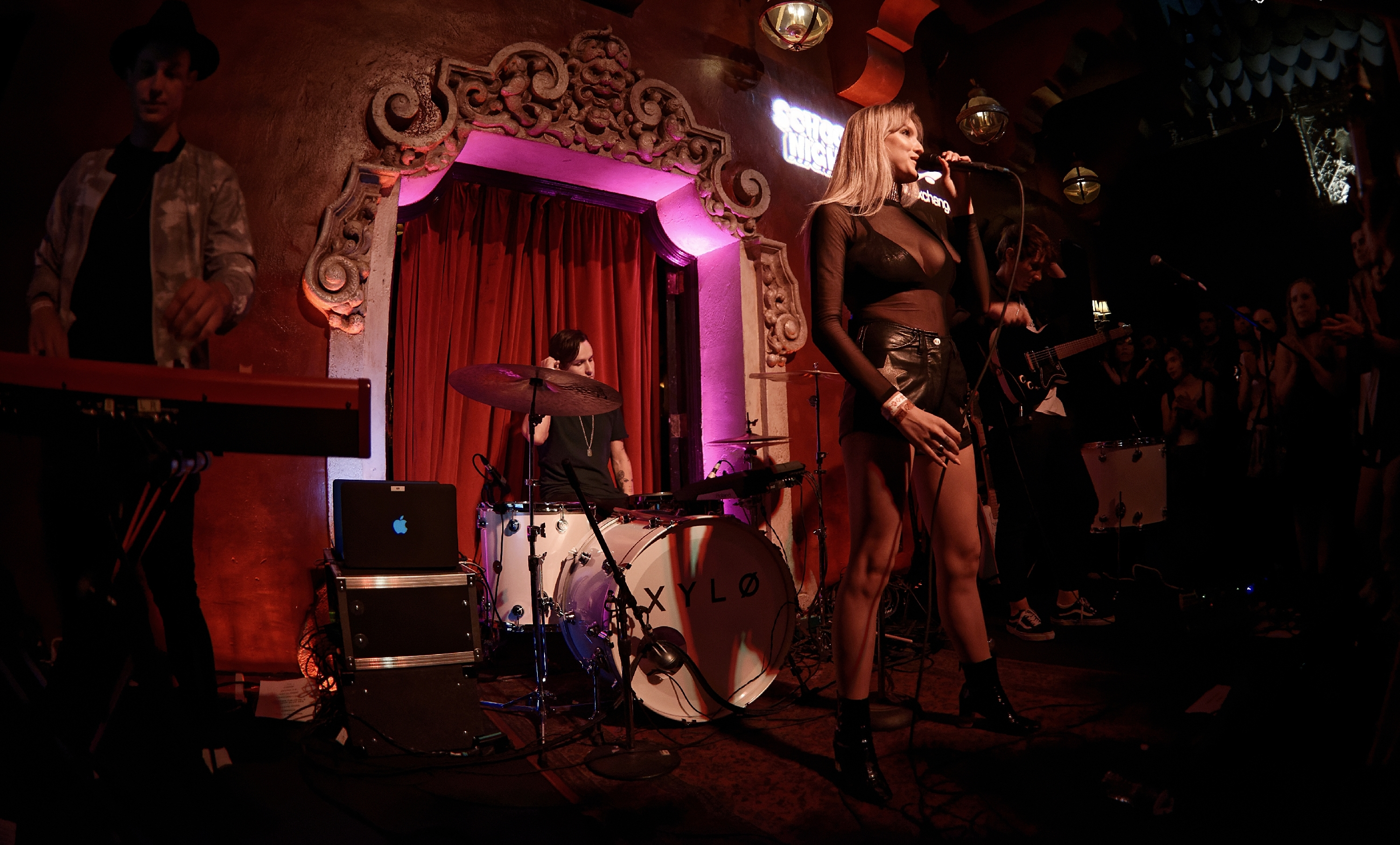 XYLO at School Night at Bardot Hollywood